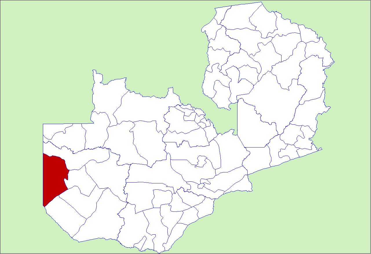 District locator in Zambia